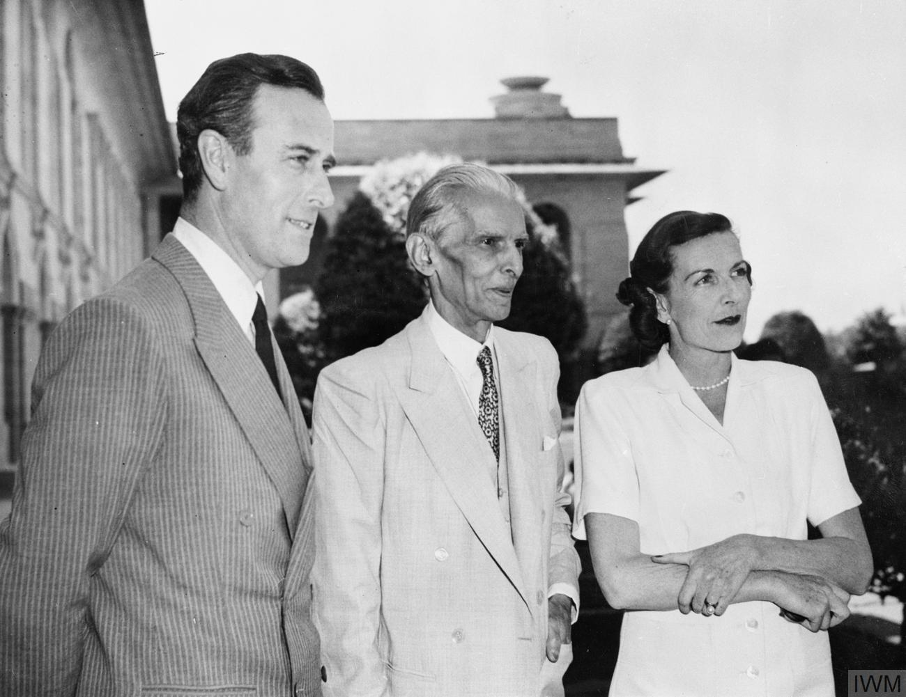 Viceroy of India: Lord and Lady Mountbatten meet Mr Mohammed Ali Jinnah, the future leader of Pakistan.